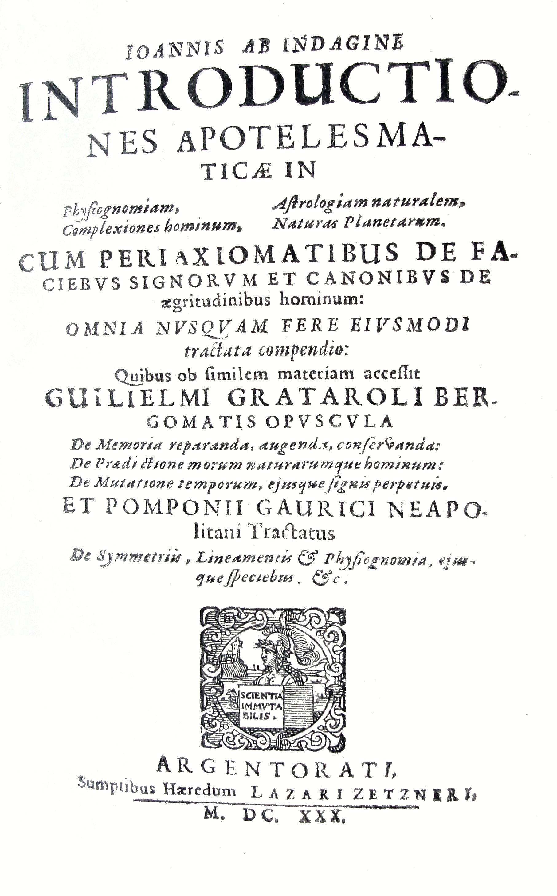 Joannis ab Indagine